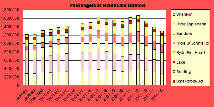 Bar chart of Office for Rail Regulation annual passenger estimates for the Island Line on the Isle of Wight from 1997–98 to 2014–15